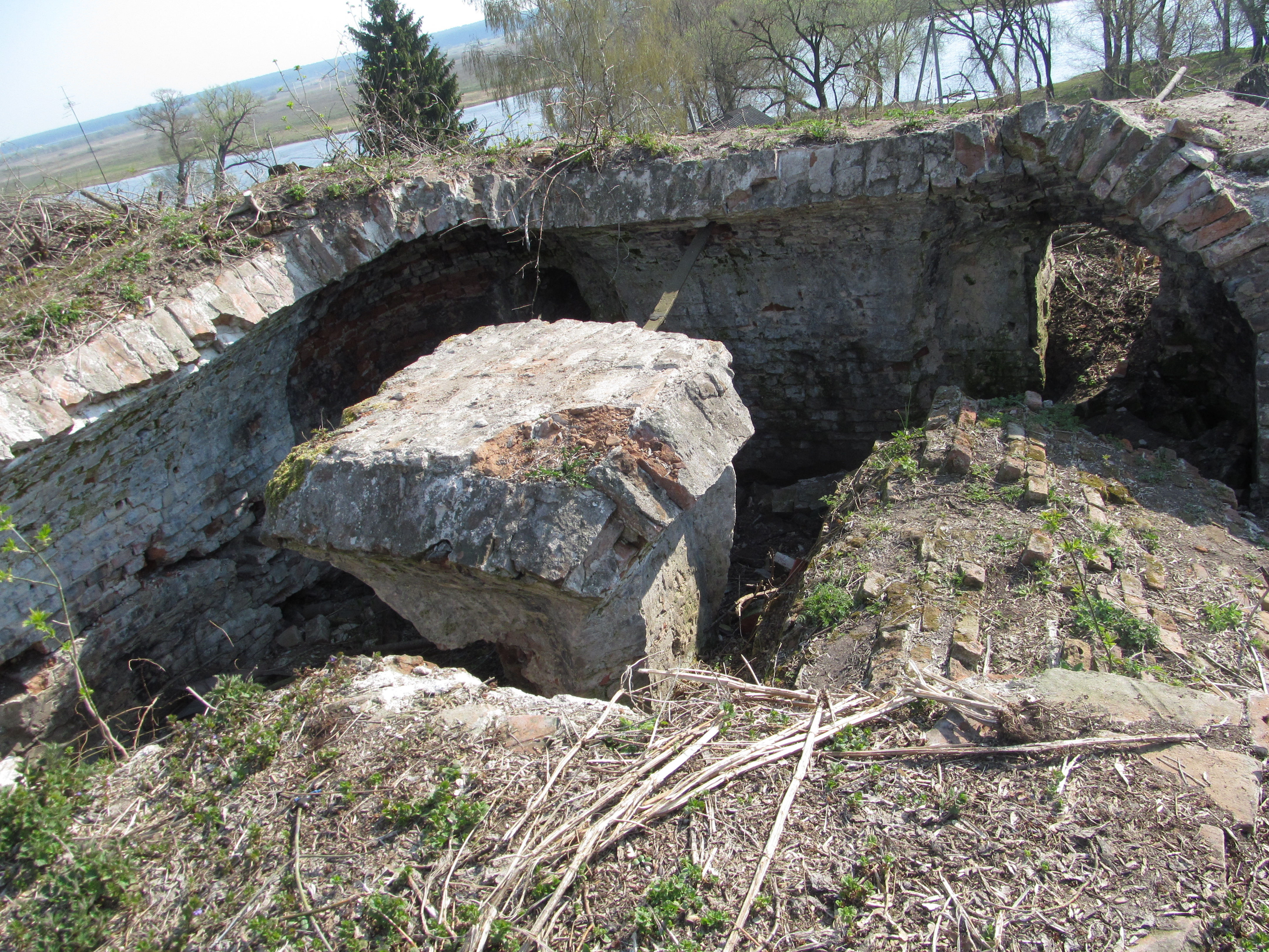 Castle hill town of Krichev, Belarus. The remains of the fortifications. Sozh River